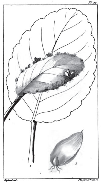 Abbildung von Bryophyllum calycinum in Candolles Organographie végétale Band 2, Tafel 22